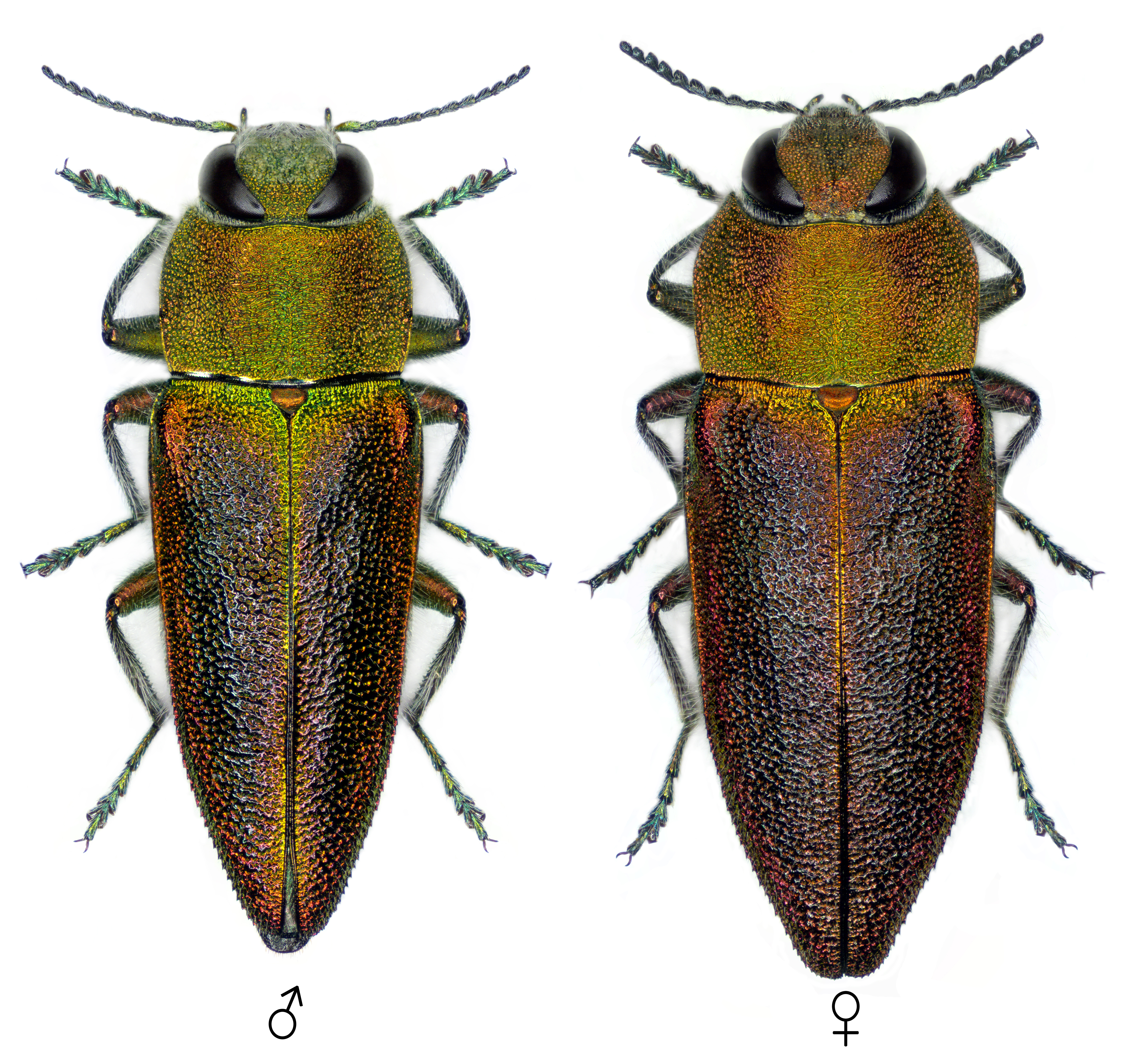 Jewel beetle Anthaxia senicula (Schrank, 1789) (Coleoptera, Buprestidae). Male and female. Ukraine, Donetsk.